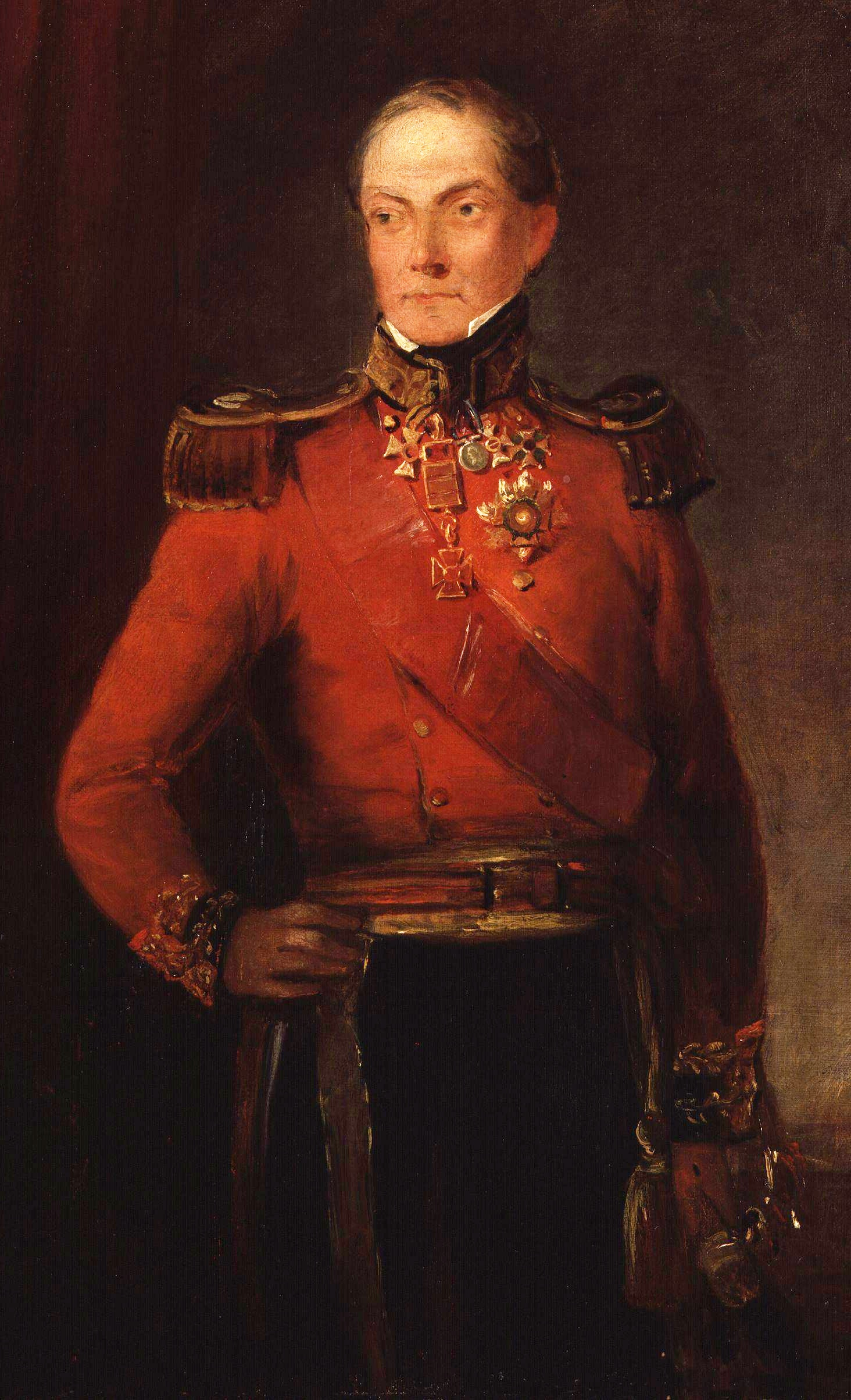 Cropped detail of Sir James Kempt, by William Salter (died 1875).